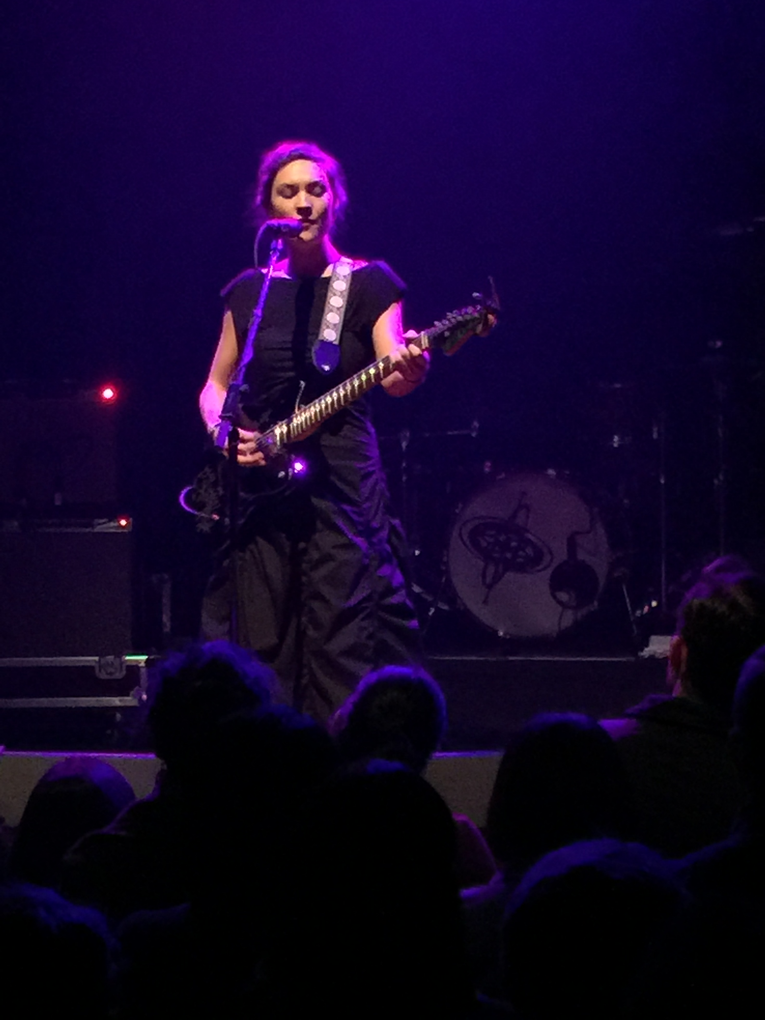 Meredith Sheldon of Massachusetts, opening second year in a row for Johnny Marr, in Chicago at the Vic, Sheffield and Belmont on northside, 25 November 2015